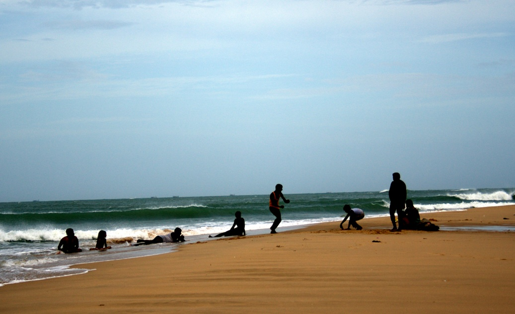 Beach